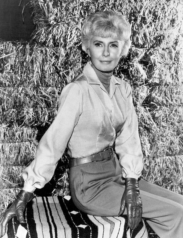 Photo of Barbara Stanwyck as Victoria Barkley from the television program The Big Valley.